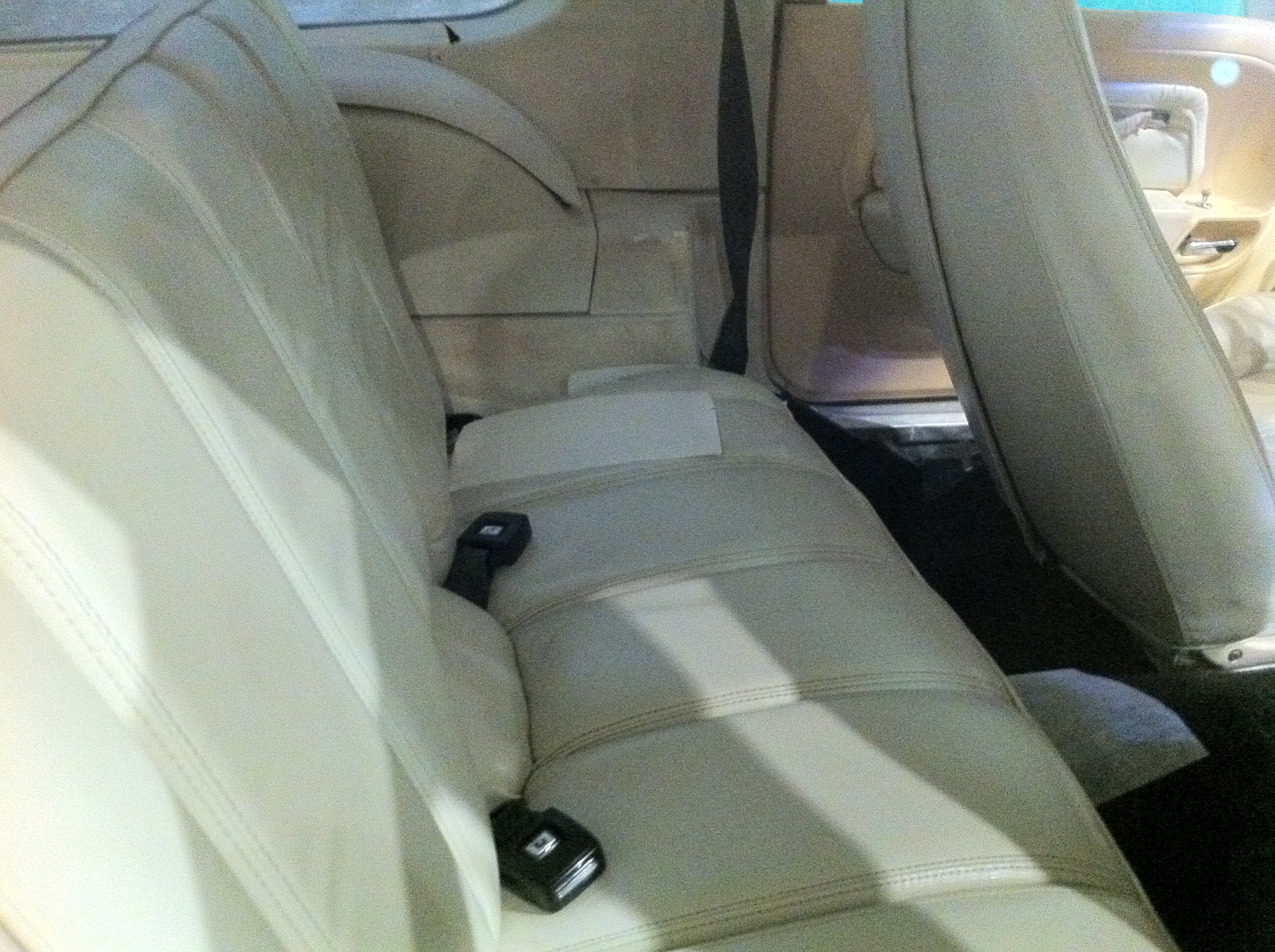 1975 AMC Pacer X coupe, by American Motors Corporation. Interior - rear bench seat upholstered in white. One of the cars in the permanent collection at the Antique Automobile Club of America Museum, located in Hershey, Pennsylvania. The AACA is premier car club in the world focused on antique cars, trucks, motorcyles and their history.